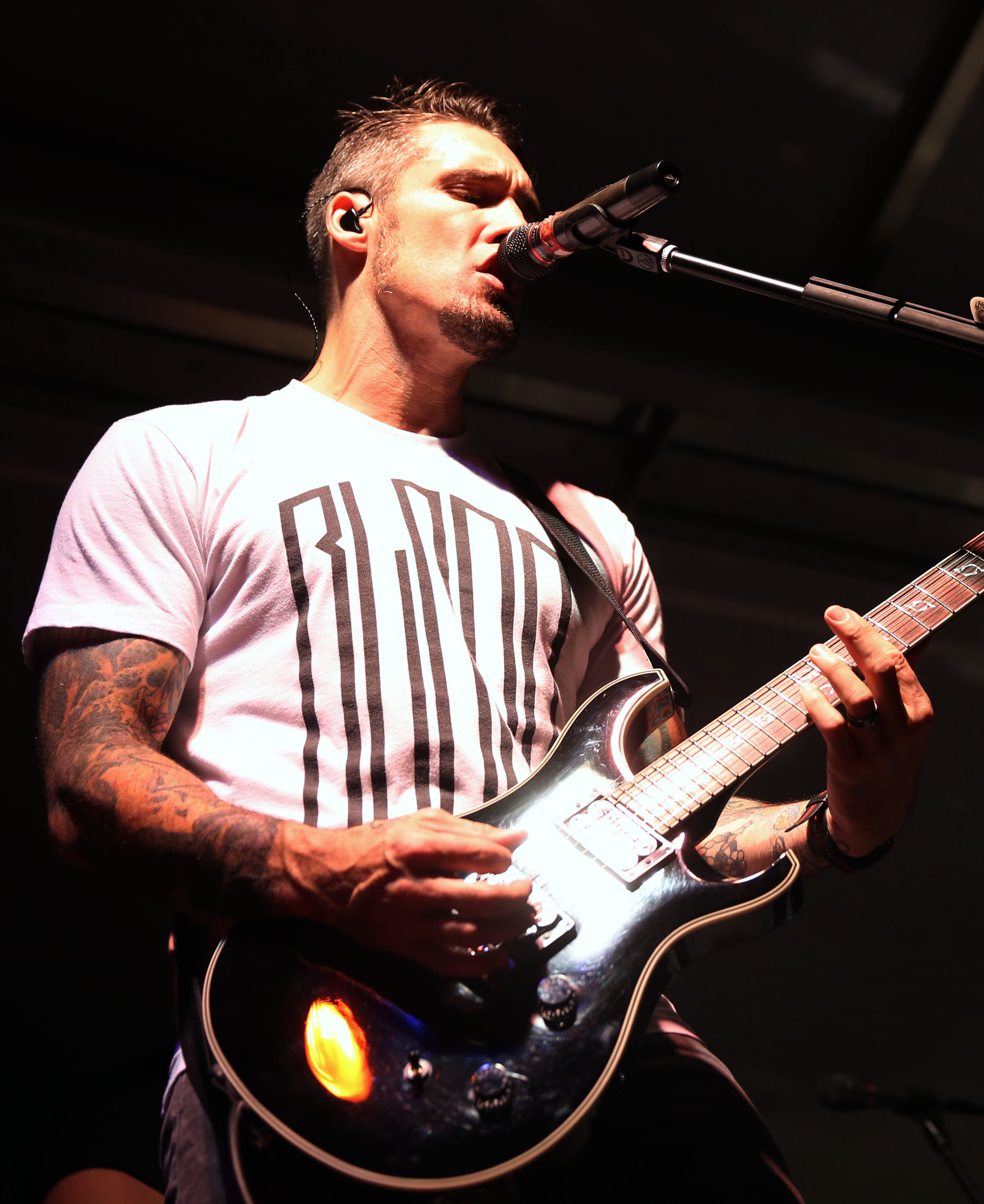 Clint Lowery plays lead guitar during Rocktoberfest at Marine Corps Air Station Cherry Point, N.C., Oct. 16, 2014. The free concert, hosted by Marine Corps Community Services, featured the band Sevendust. Lowery is a native of Fayetteville, N.C.